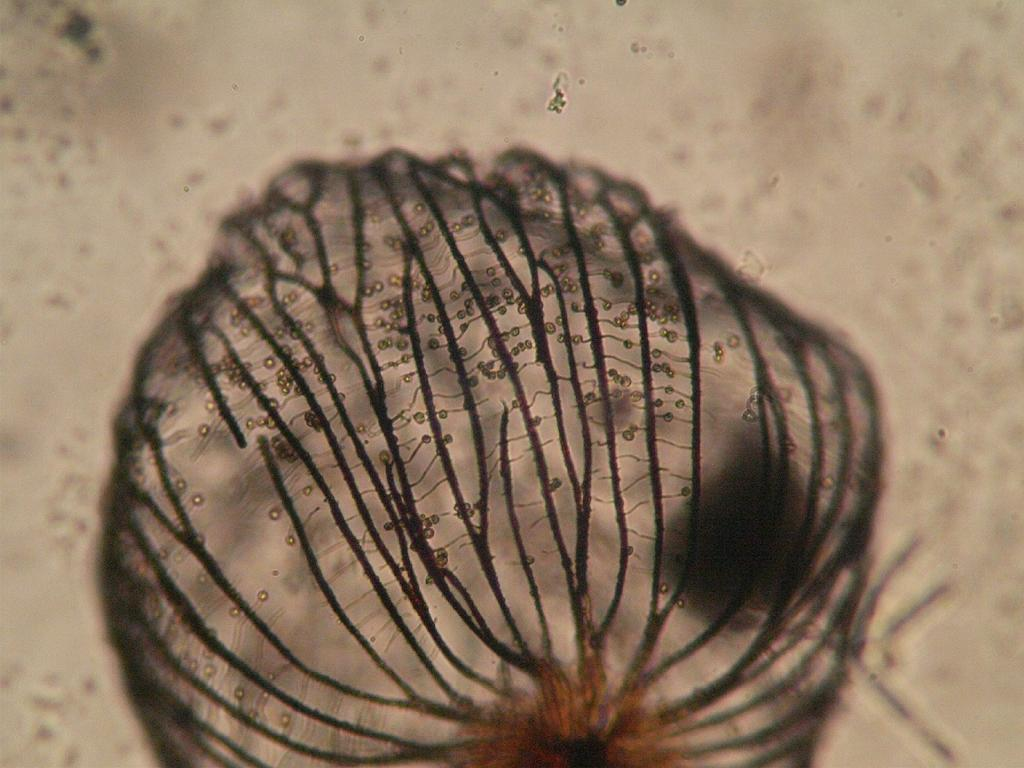 Cribraria cancellata (Cribrariaceae) Japanese name:Kumonosuhokori：クモノスホコリ Date;2009,08.22;Tanabe City, Wakayama prefecture, Japan Author;Keisotyo